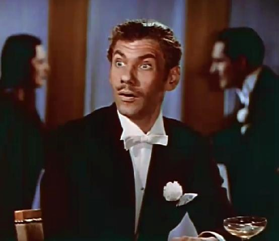 Leonid Kinskey in That Night in Rio - trailer (cropped screenshot)